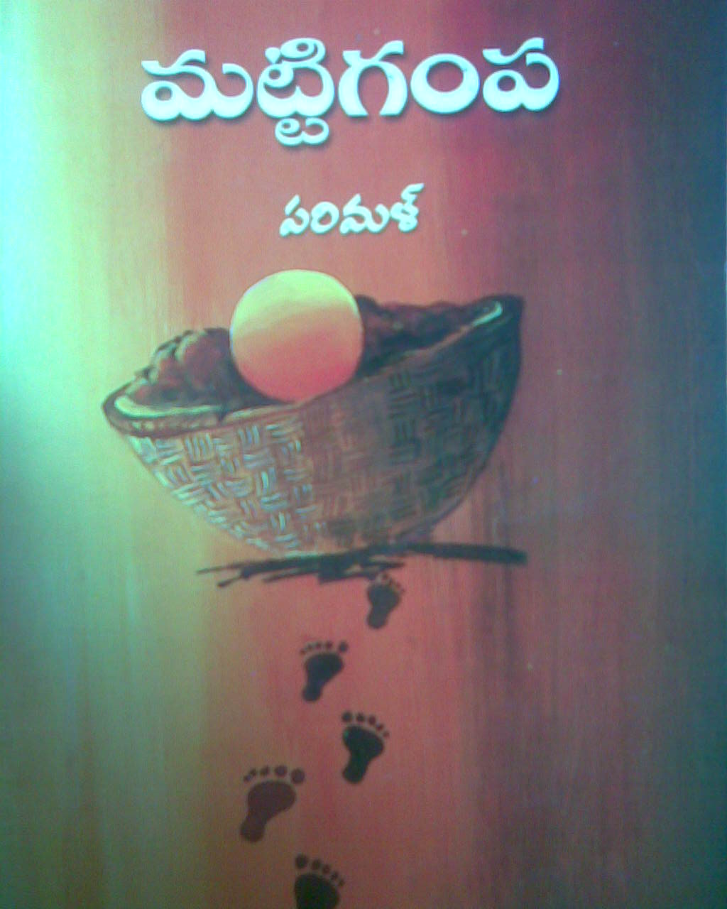 ముఖచిత్రం